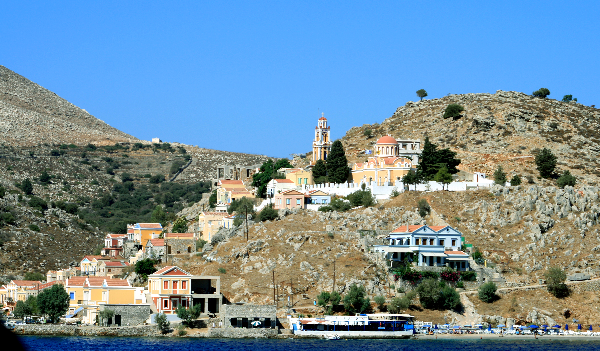 Small Greece town Sími on the Sími island Date=2007-08-25 Author= Karelj